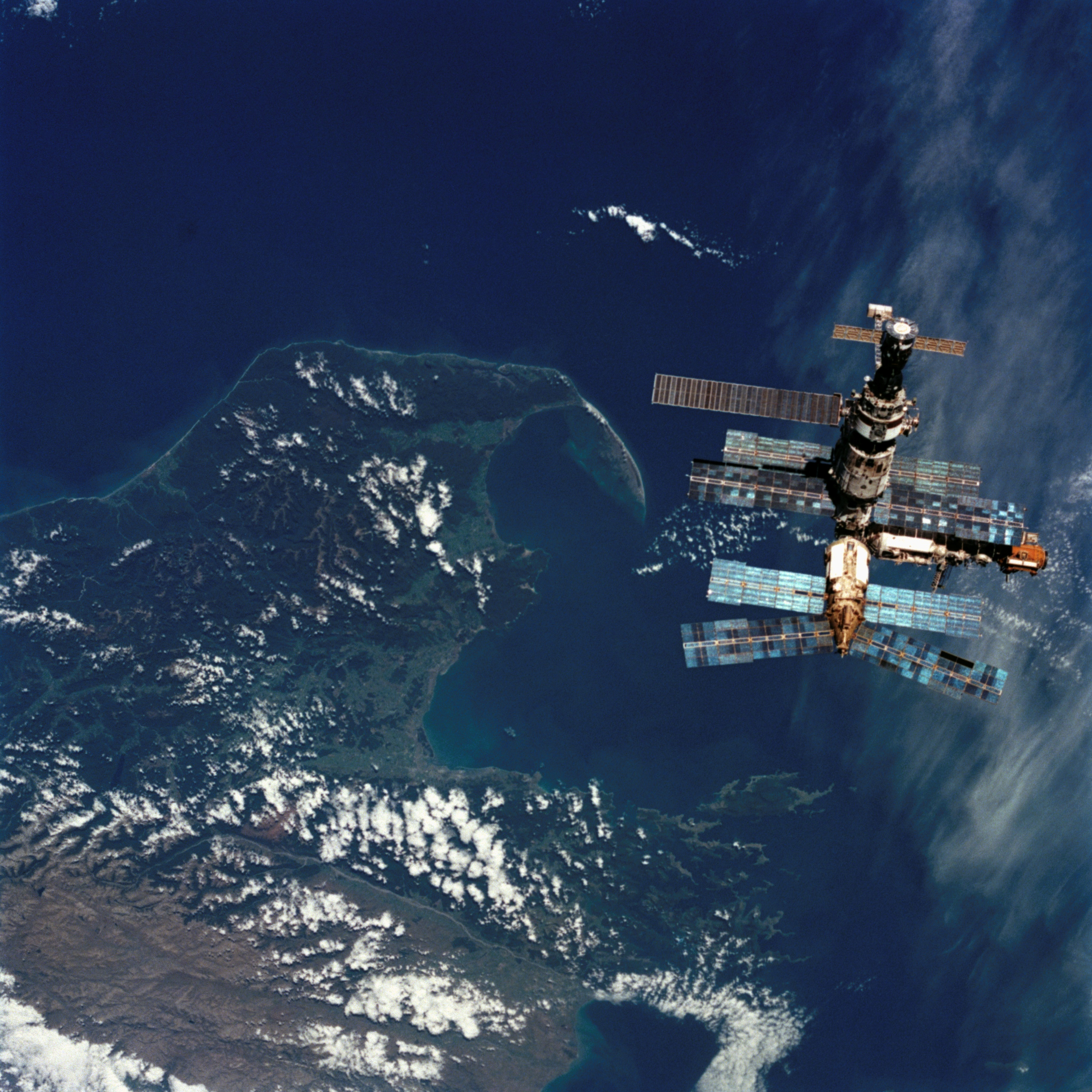 This image was recorded by astronauts as the Space Shuttle Atlantis approached the Russian space station prior to docking during the STS-76 mission. Sporting spindly appendages and solar panels, Mir is orbiting about 350 kilometers above New Zealand's South Island and the city of Nelson near Cook Strait. Backdropped against the waters of Cook Strait near New Zealand's South Island, Russia's Mir Space Station is seen from the aft flight deck window of the Space Shuttle Atlantis. The two spacecraft were in the process of making their third docking in Earth-orbit. With the subsequent delivery of astronaut Shannon W. Lucid to the Mir, the Mir-21 crew grew to three, as the mission specialist quickly becomes a cosmonaut guest researcher. She will spend approximately 140 days on Mir before returning to Earth.